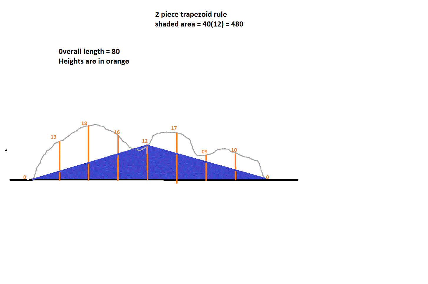 A freeform curve with the 2 piece trapezoid rule. Part 2 of 4. This is intended to be used with the article on the Romberg method